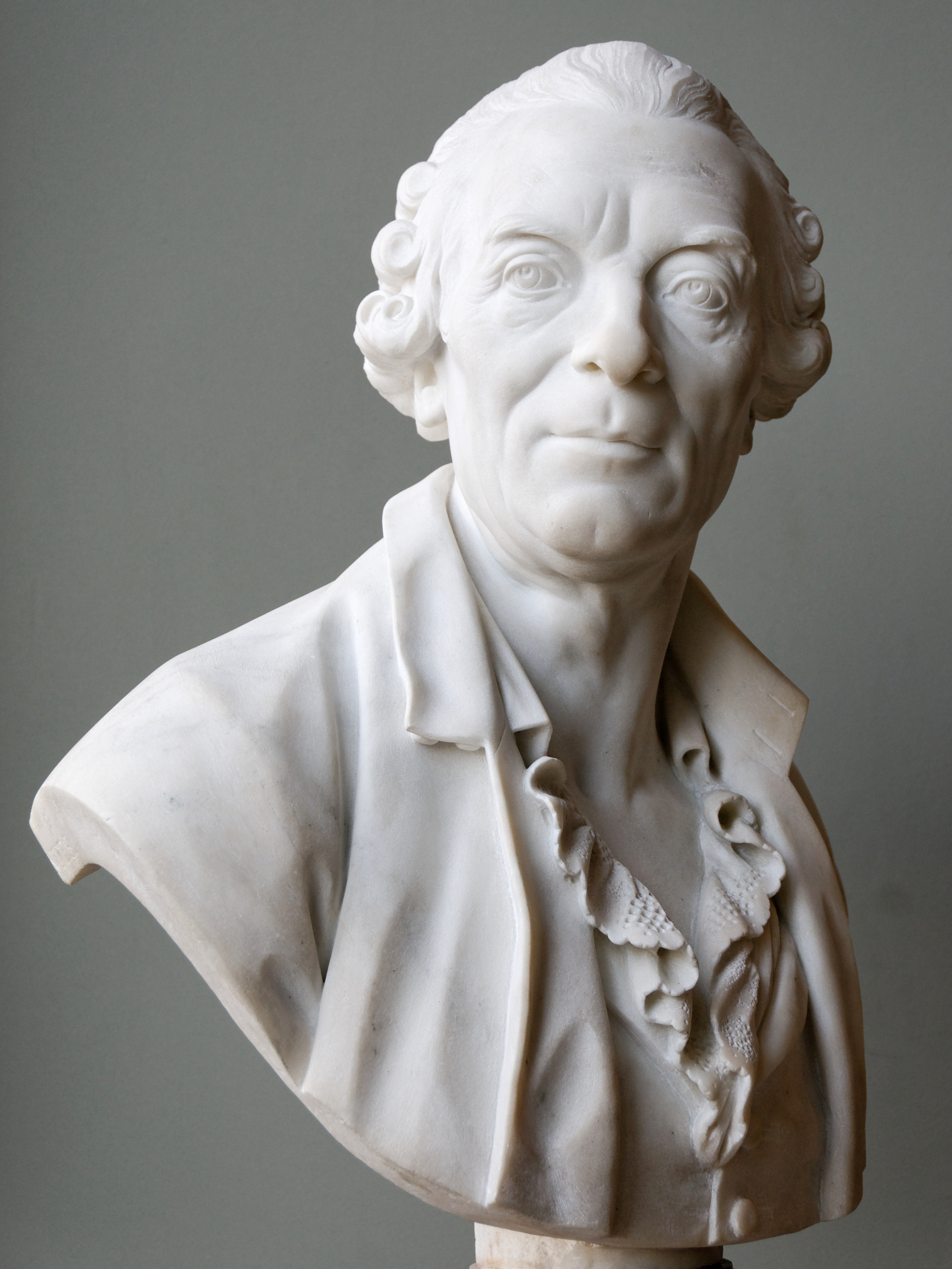 Bust of Buffon (1707-1788)